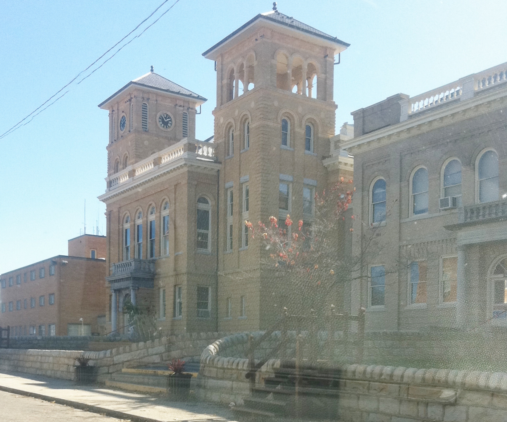 Wise County Courthouse located in Wise, Virginia